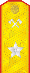 Russian rank insignia (1943-1945), here "Marshals of engineers corps" (OF9) – shoulder strap service – and dress uniform.